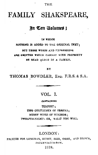 Title page of Thomas Bowdler's 1818 edition of his The Family Shakspeare. THE FAMILY SHAKSPEARE, In Ten Volumes; IN WHICH NOTHING IS ADDED TO THE ORIGINAL TEXT; BUT THOSE WORDS AND EXPRESSIONS ARE OMITTED WHICH CANNOT WITH PROPRIETY BE READ ALOUD IN A FAMILY BY THOMAS BOWDLER, Esq. F.R.S. & S.A. VOL. I. CONTAINING TEMPEST; TWO GENTLEMEN OF VERONA; MERRY WIVES OF WINDSOR; TWELFTH-NIGHT: OR, WHAT YOU WILL. LONDON: PRINTED FOR LONGMAN, HURST, REES, ORME, AND BEOWN, PATERNOSTER-ROW. 1818